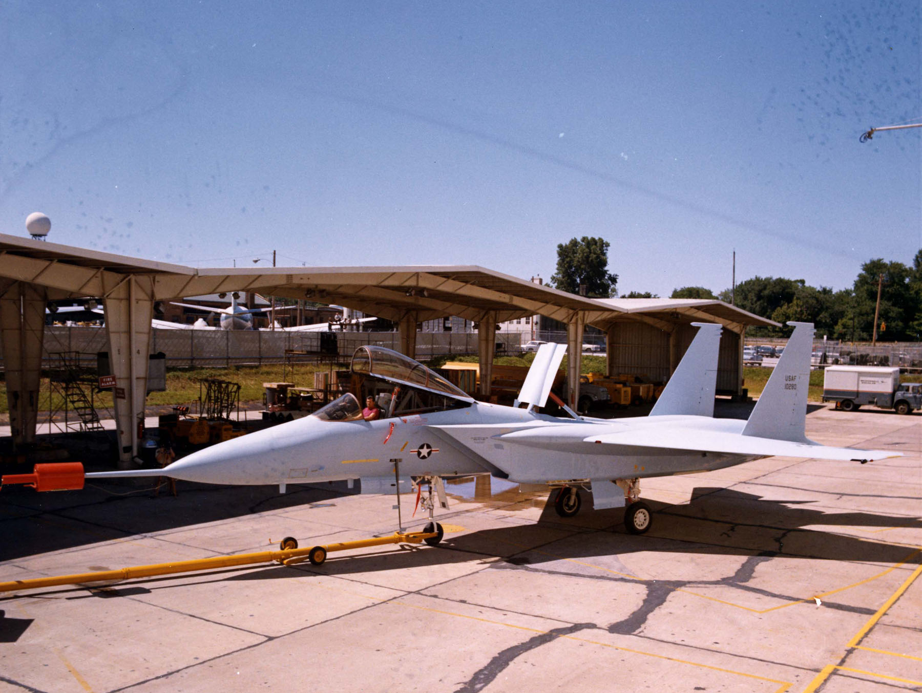 McDonnell Douglas F-15A (S/N 71-0280).